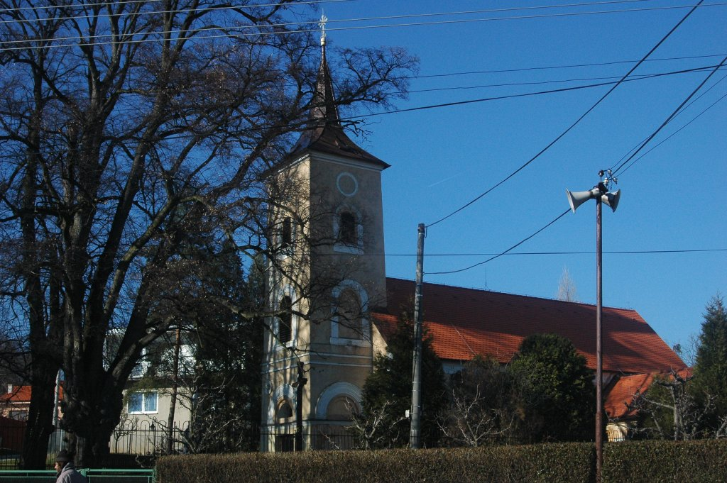 Smrdáky, church